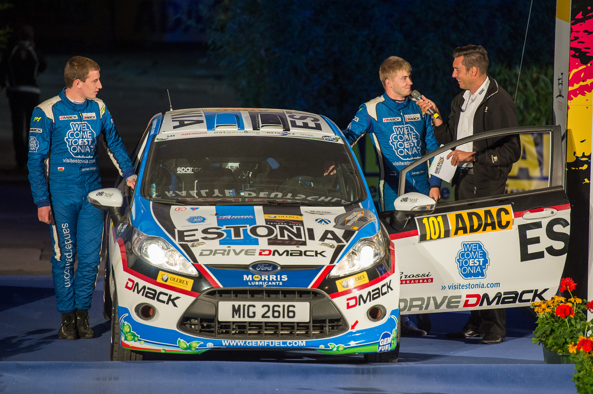 ADAC Rallye Deutschland 2014,Ceremonial Start,Estonian Autosport Union,FIA,FIA World Rally Championship,Ford Fiesta R2,James Morgan,Motorsport,Rally,Rallye,Sander Parn,Sander Pärn,Showstart,WRC,Zeremonienstart